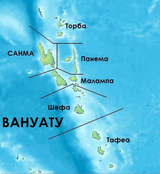 Map of Vanuatu and Vanuatu's provinces on Macedonian language.